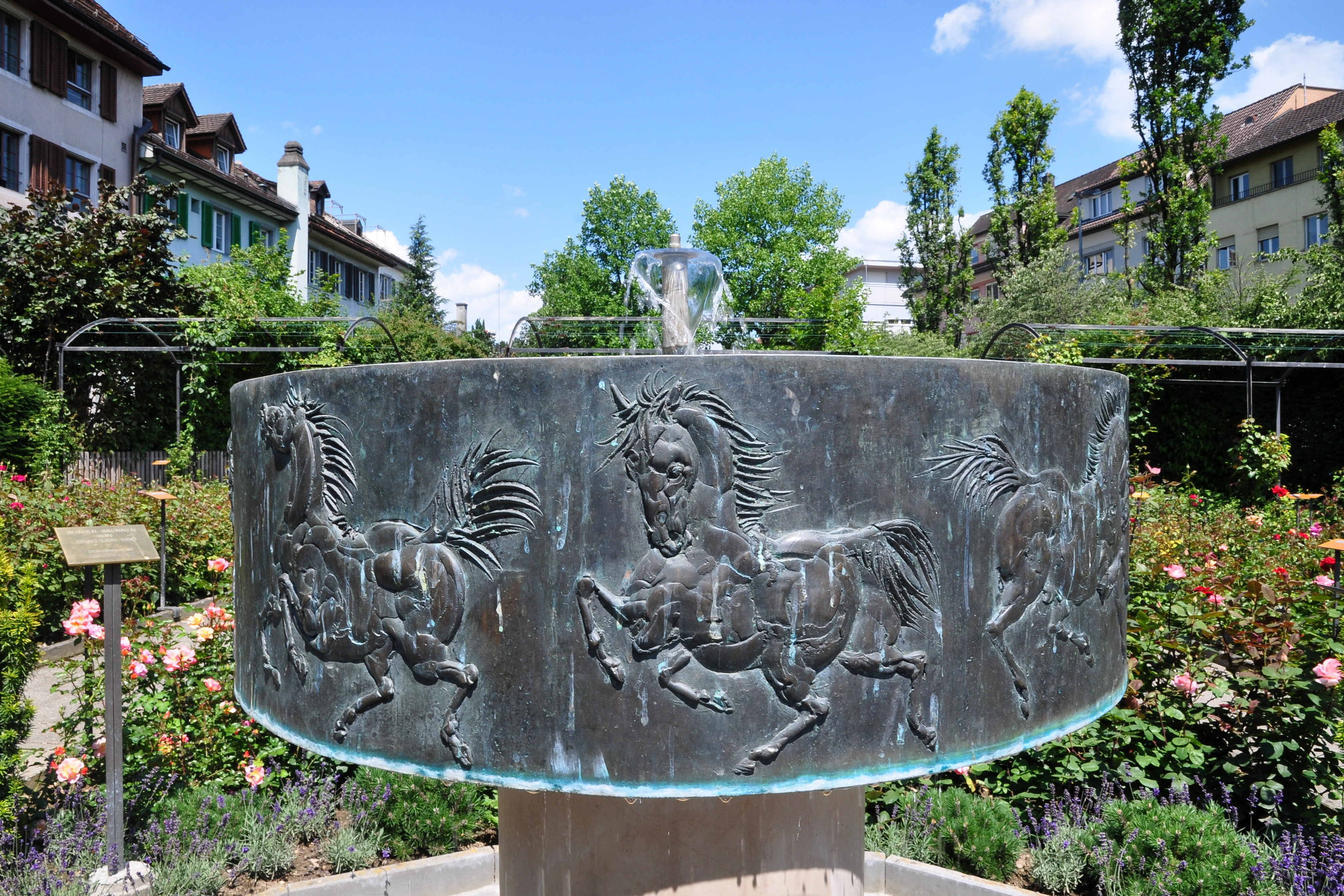 Rapperswil (Switzerland) : Duftrosengarten for blind people, Circus Knie fountain created by the Swiss artist Hans Erni.